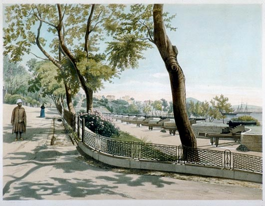 A Picture from the Garrison Library in Gibraltar - Garrison Library Picture - Victoria Battery